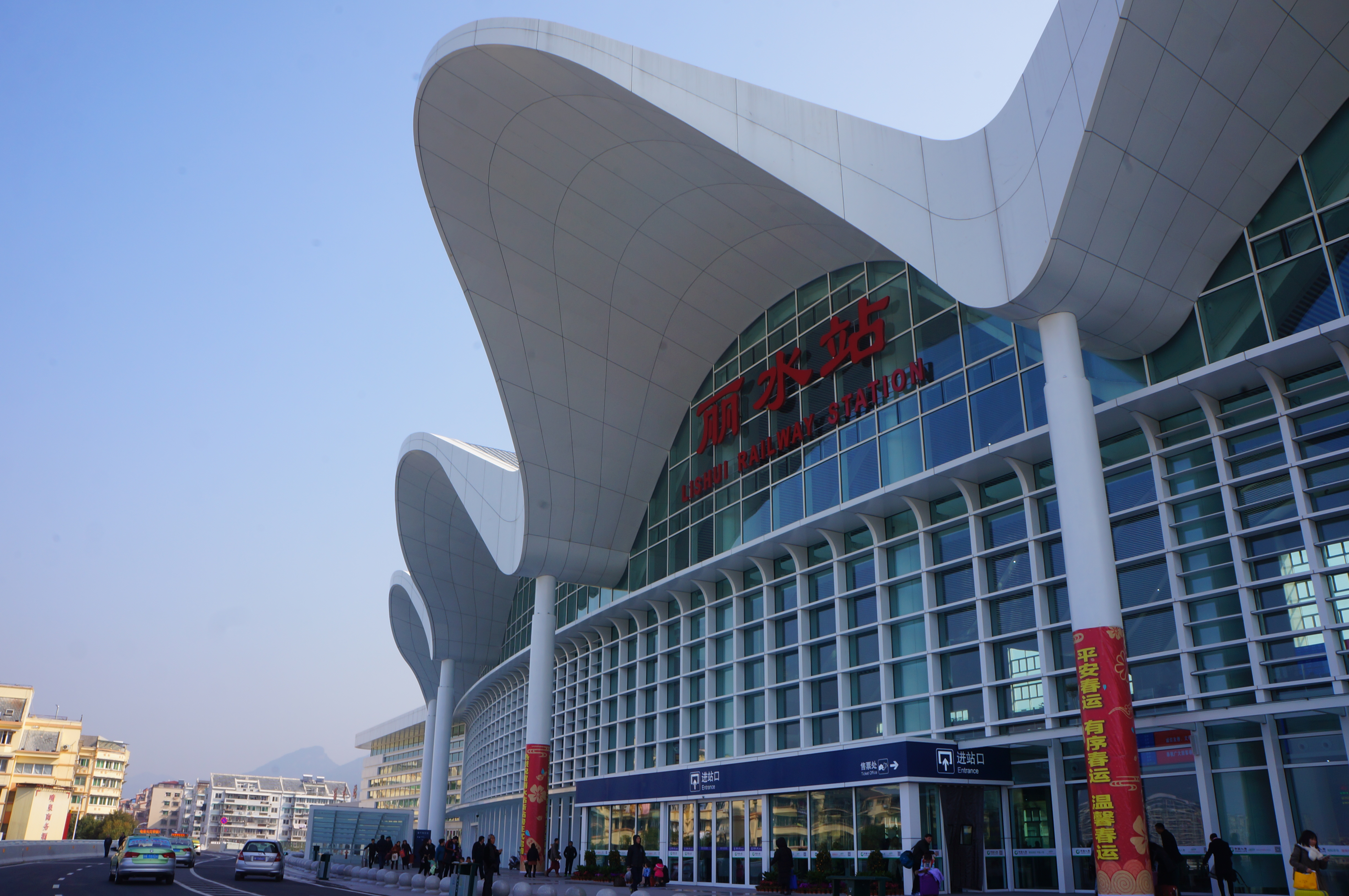 201701 Lishui Station building